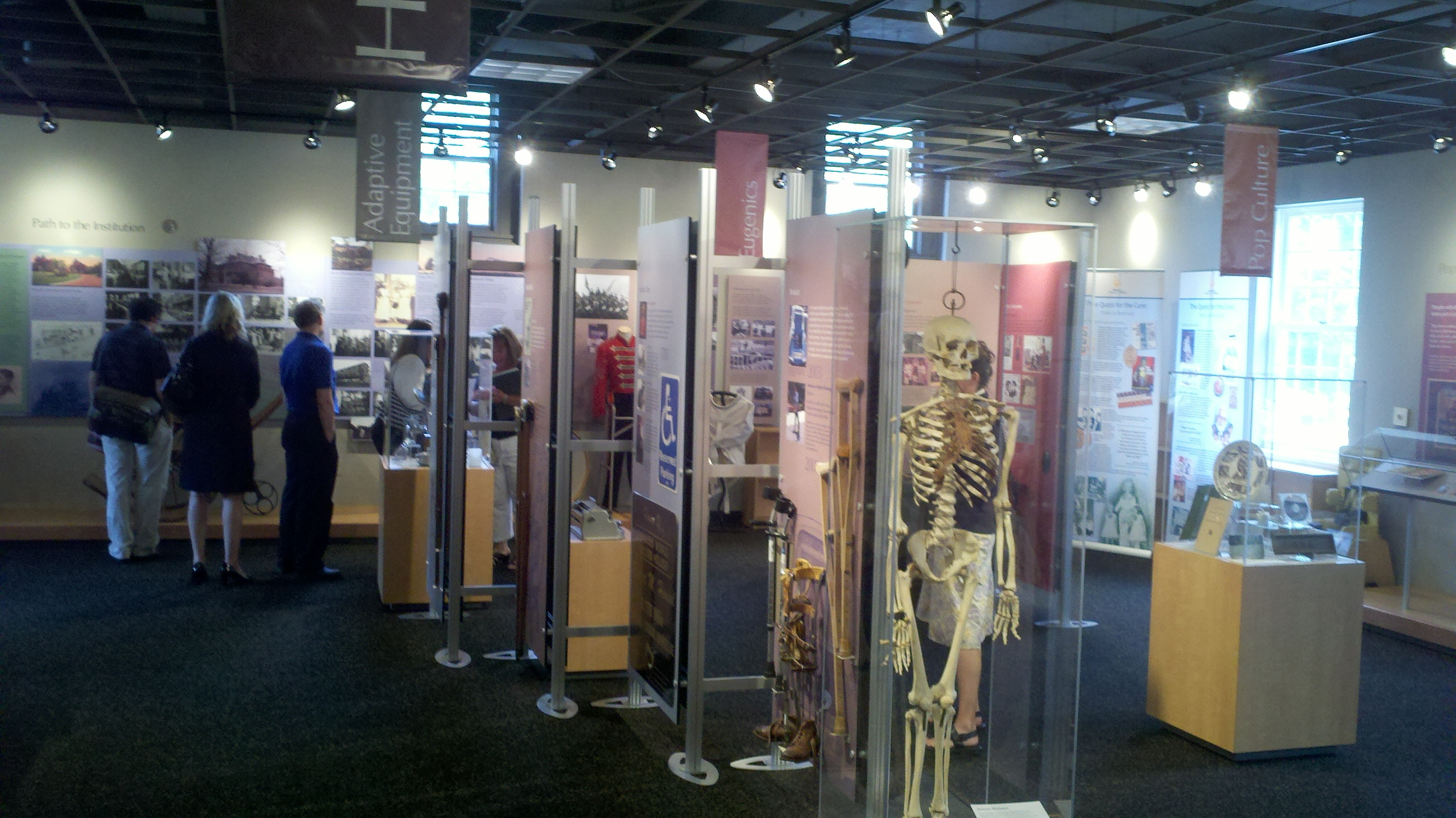 Museum of disABILITY History, Amherst, New York State.